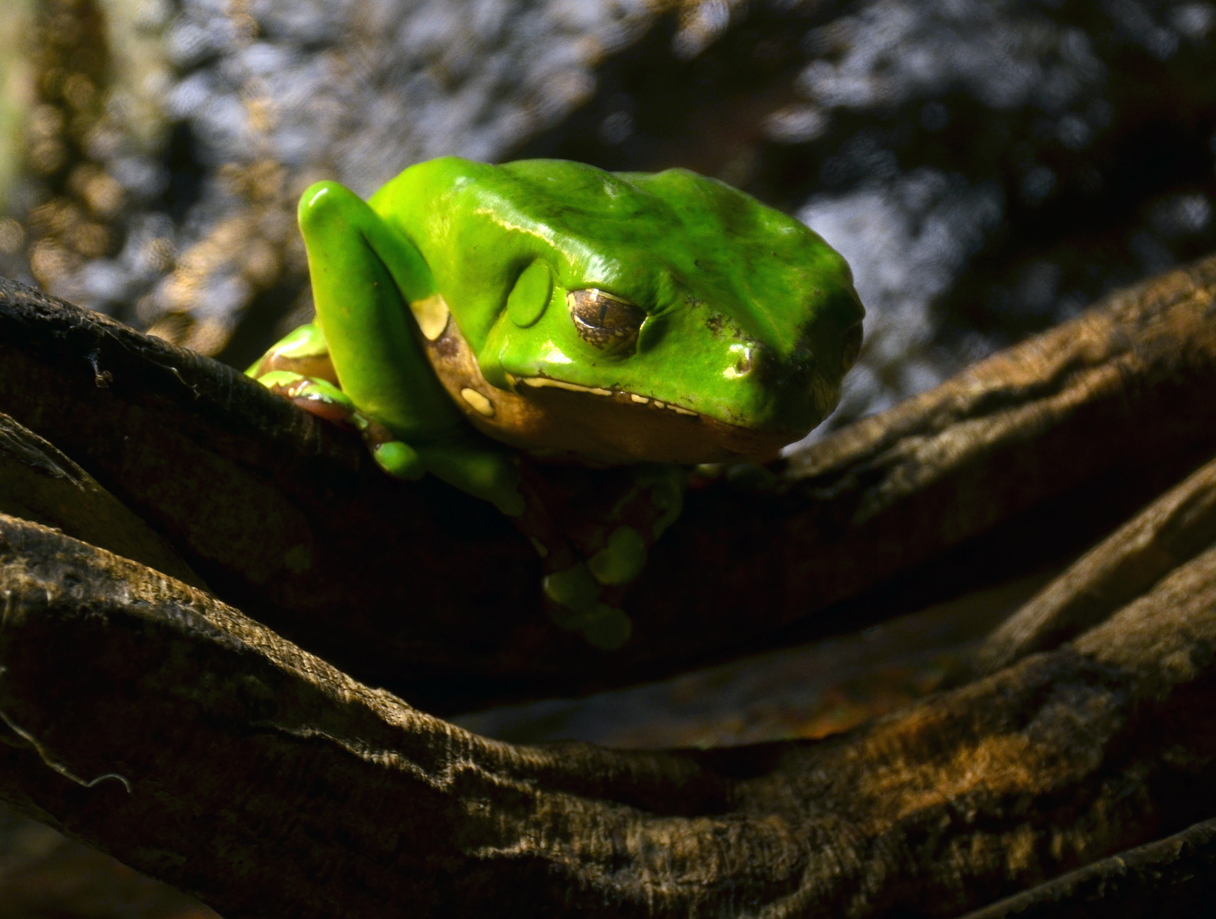 Giant leaf frog ( Phyllomedusa bicolor ), in the Serpentarium, in Blankenberge.